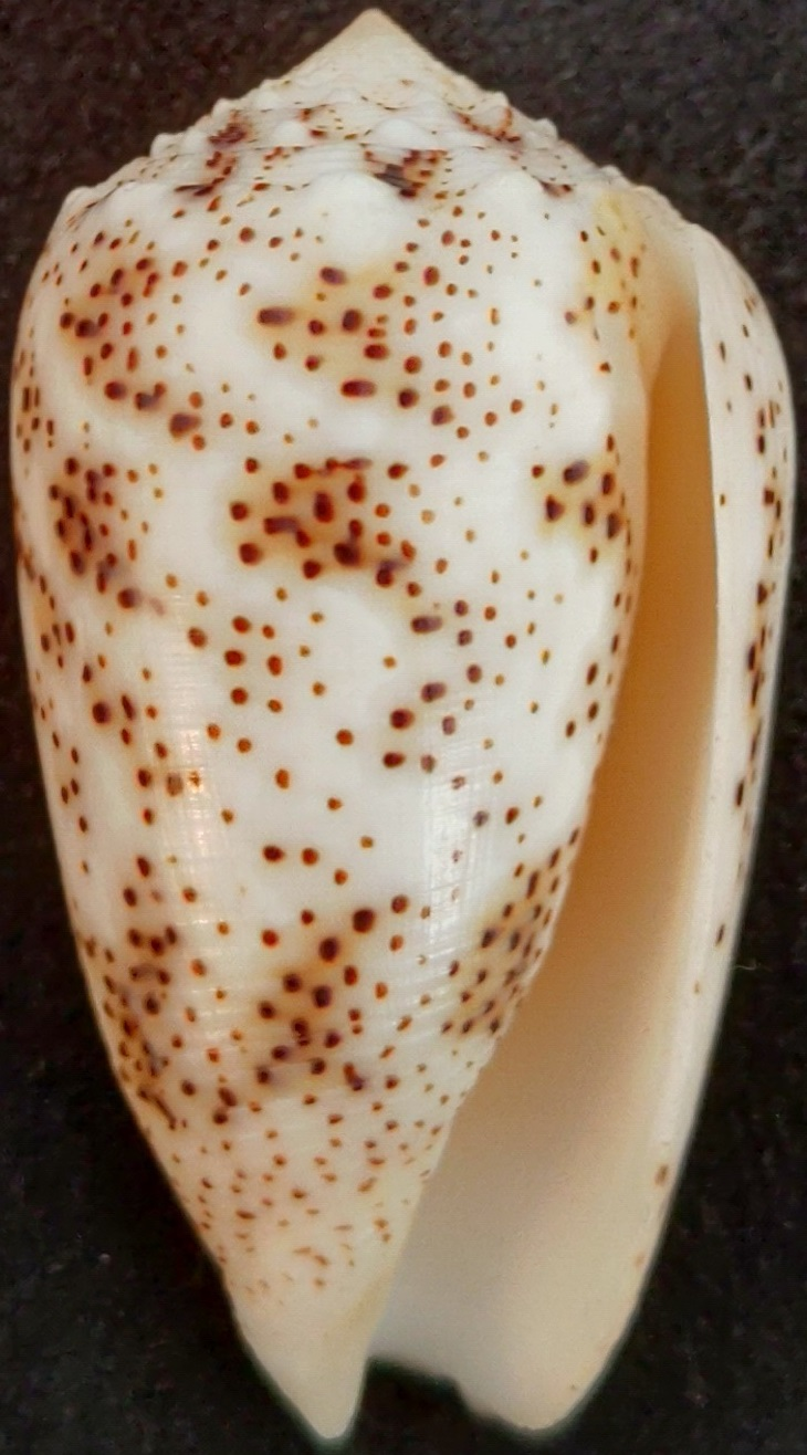 Conus Arenatus Bizonus (var.) Front